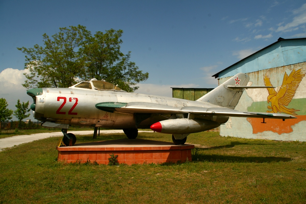 Bulgarian all-weather fighter MiG-17PF. Museum of Bulgarian Air Force, Krumovo.